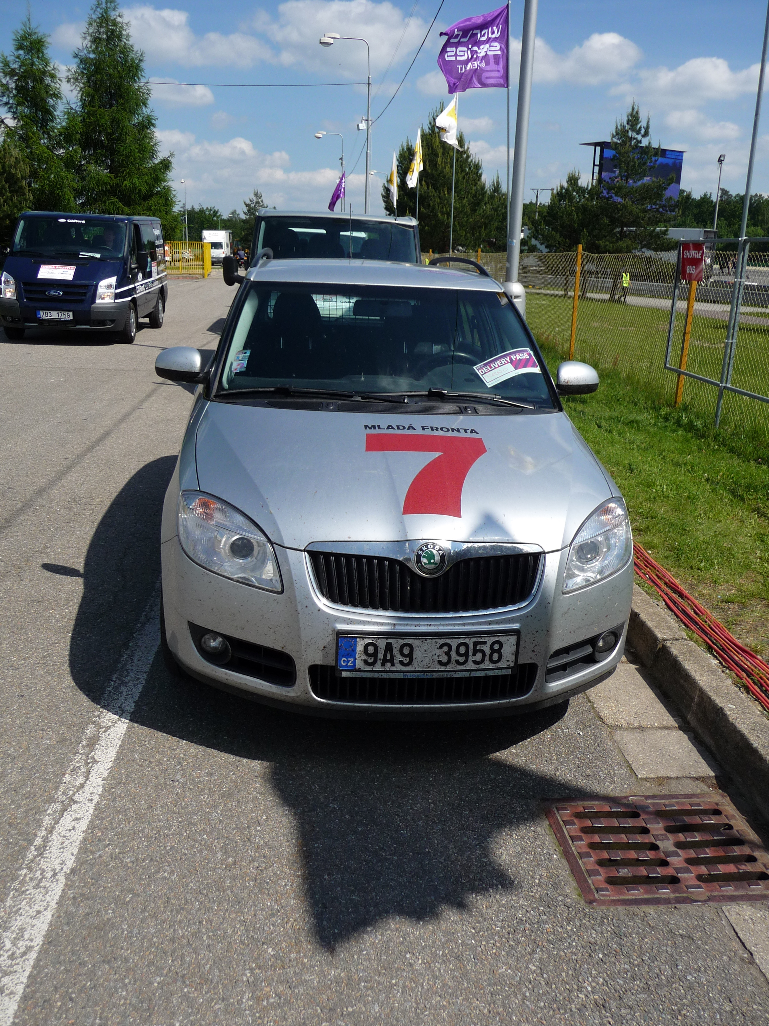 Car od regional weekly paper Sedmička, 2010 Brno World Series by Renault